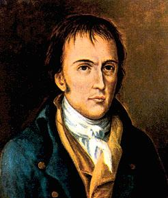 Painting of the poet Manuel Maria Barbosa du Bocage by Portuguese painter João Elói do Amaral